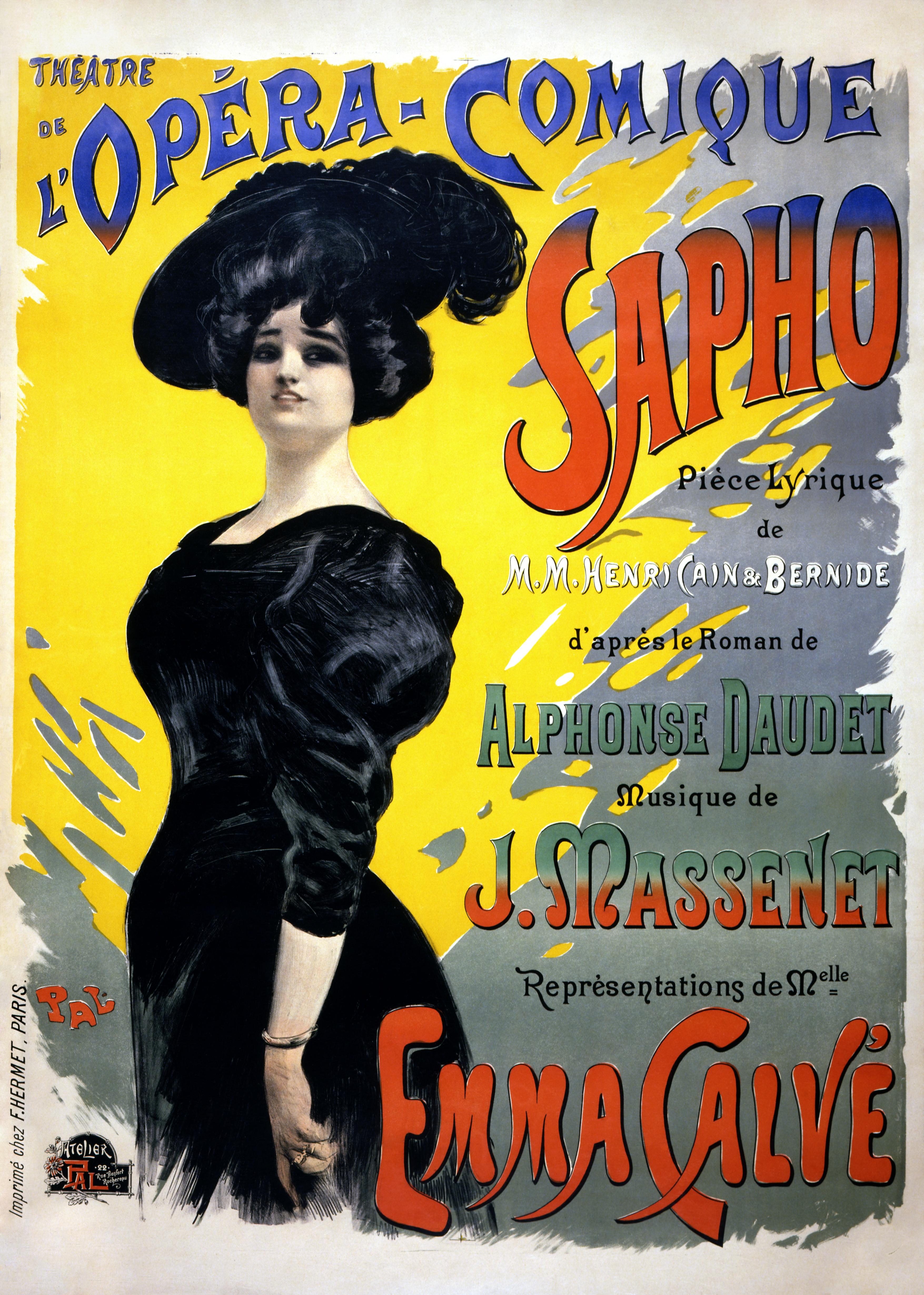 Poster for the première of Massenet's opéra-comique Sapho which was first performed on 27 November 1897 by the Opéra Comique at the Théâtre Lyrique on the Place du Châtelet in Paris with Emma Calvé in the title role, née Fanny Legrand. Printed by chez F. Hermet, Paris)